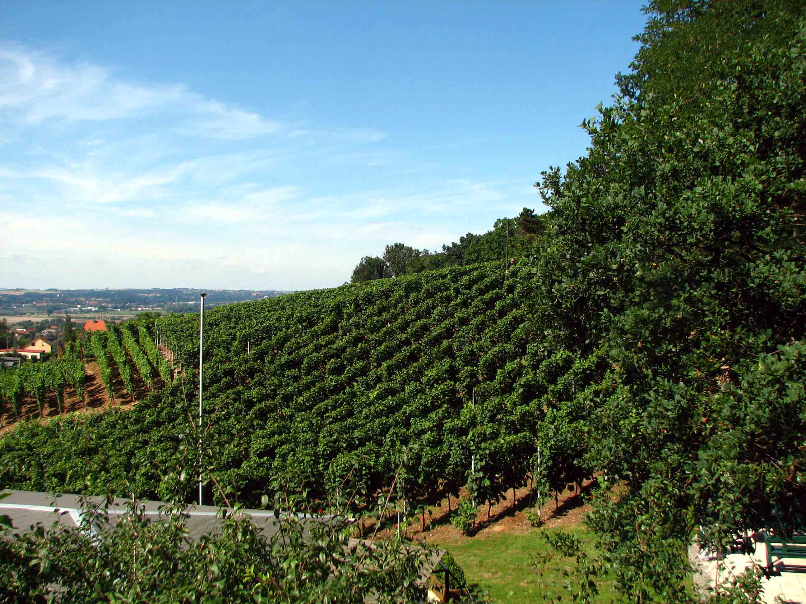 Vineyard in Weinböhla